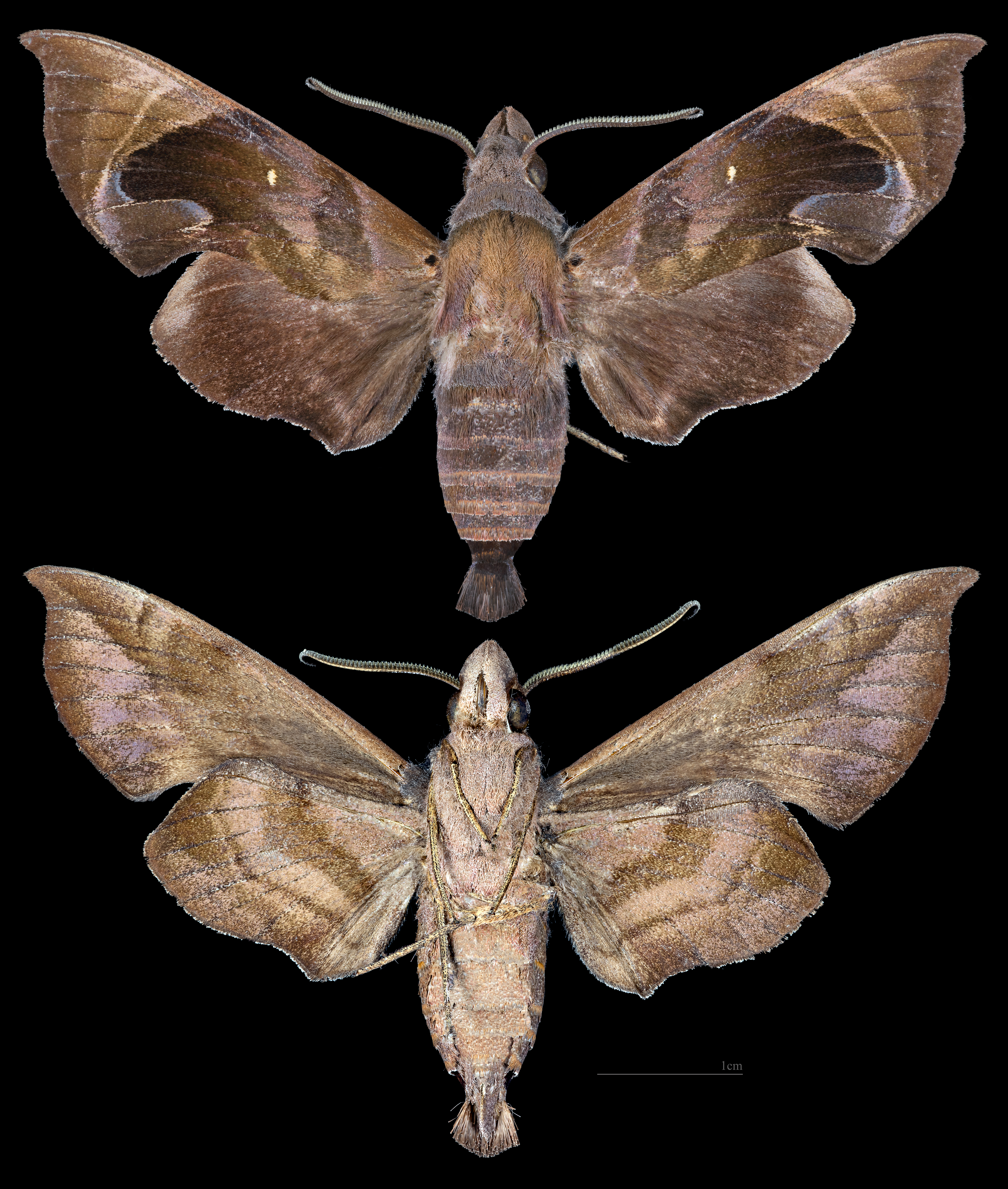 Eurypteryx obtruncata - Two views of same specimen Collection of the Mathematician Laurent Schwartz